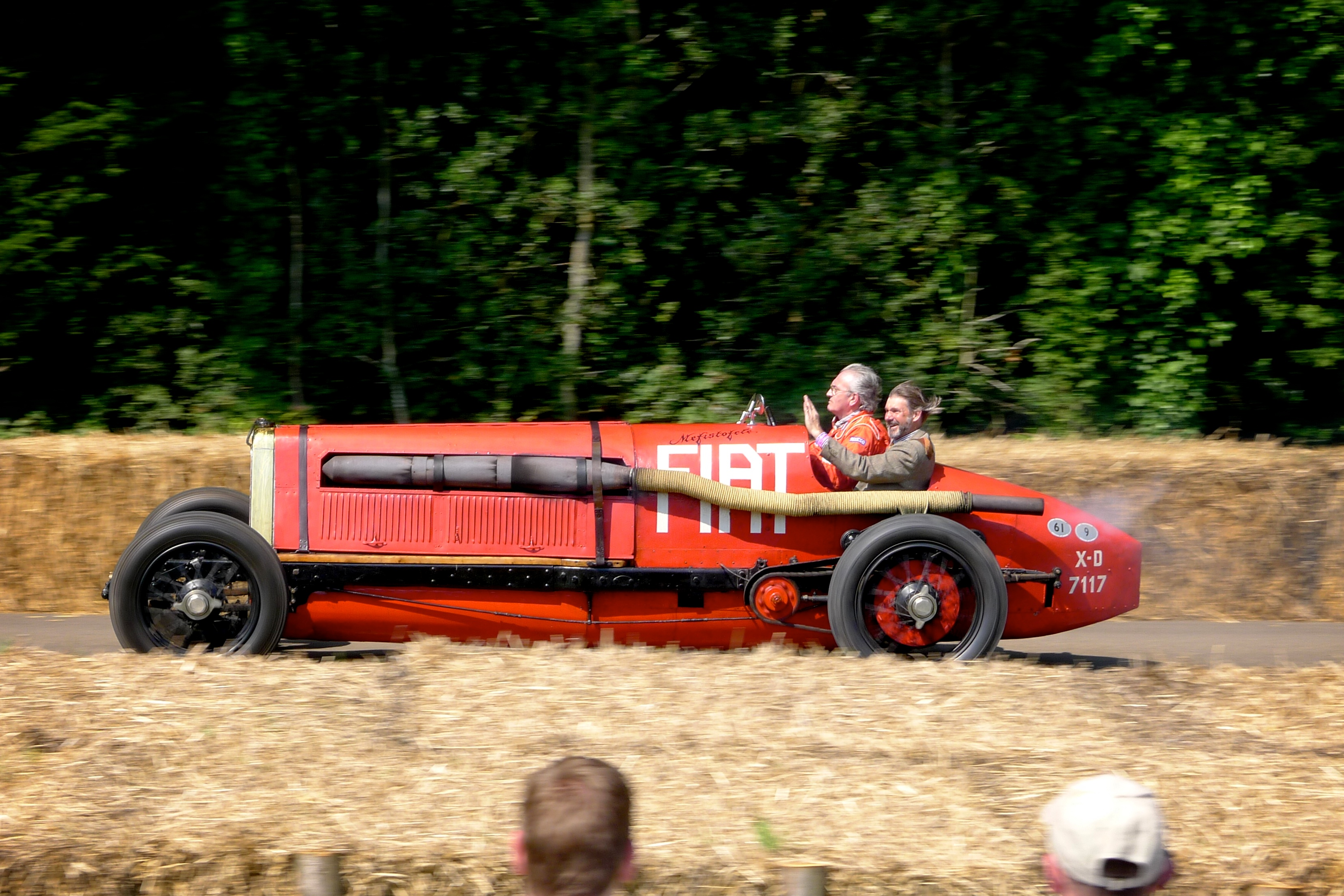 The 24 valve 21.7 litre 6-cylinder engine propelled this Fiat to a top Speed of 146mph in 1924